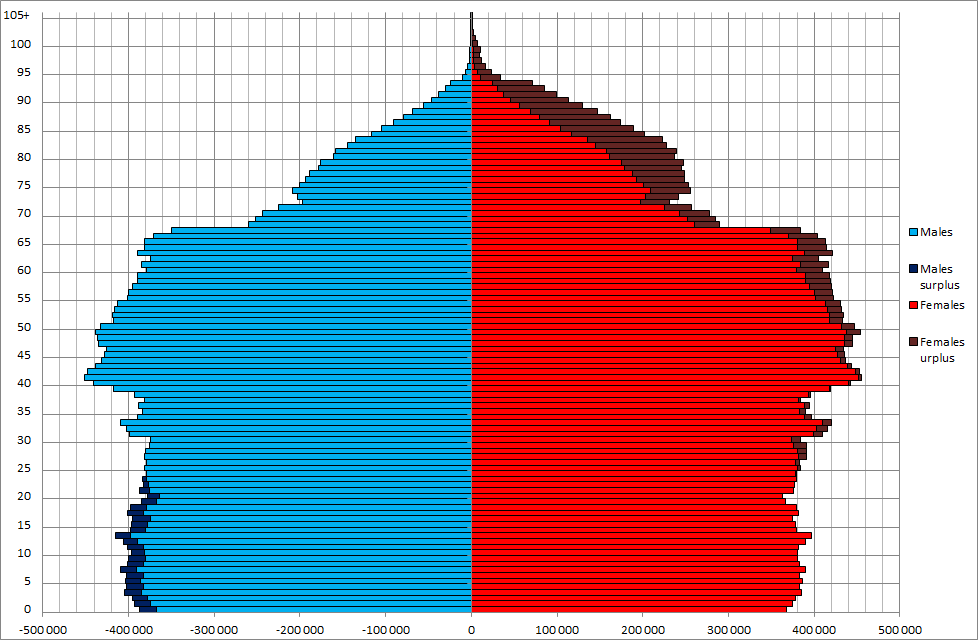 France population by age and sex (population pyramid) as of January 1, 2014